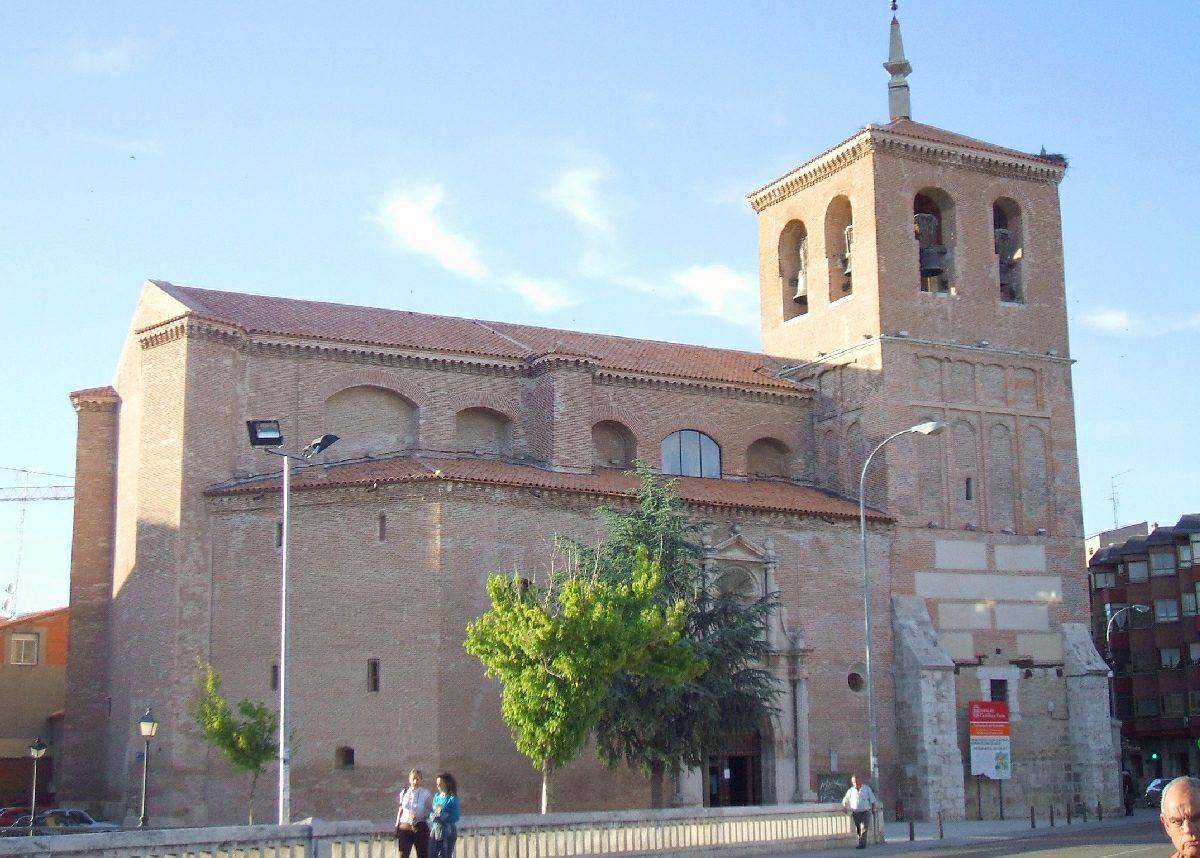 Iglesia de San Miguel, Medina del Campo (provincia de Valladolid, España).